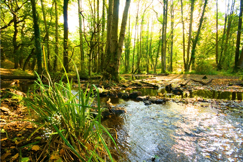 Forest of Dean Spring